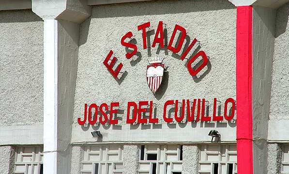 Estadio José del Cuvillo